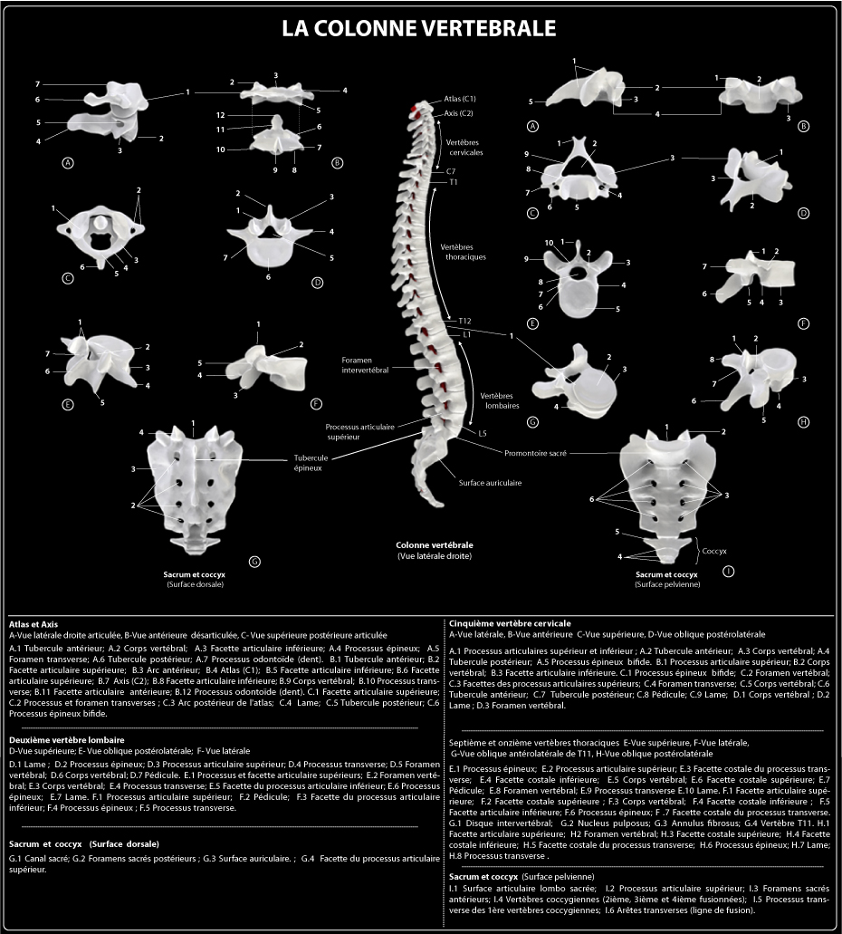 The vertebral column